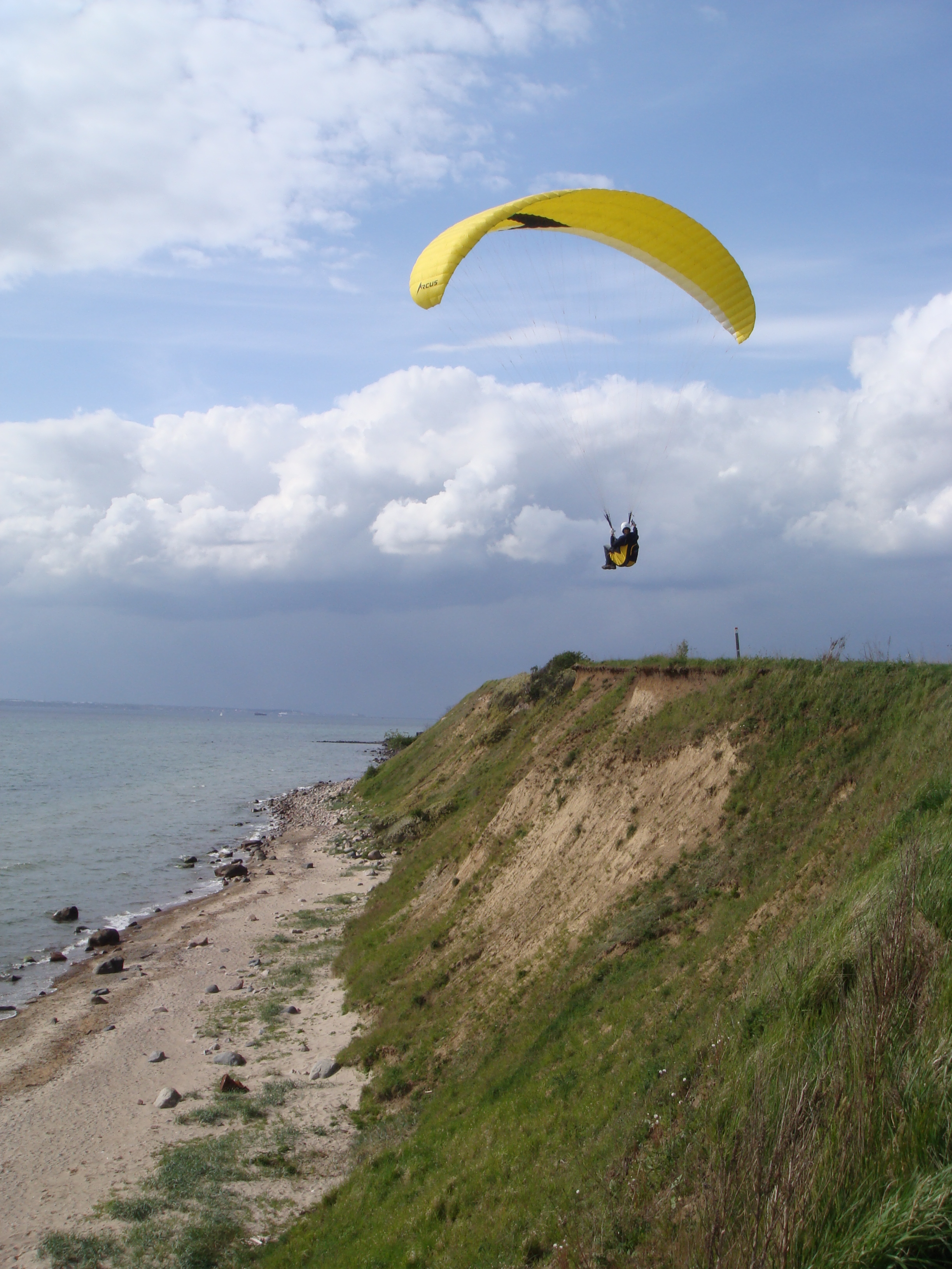 Coastal ridge soaring. Paraglider: Swing Arcus.